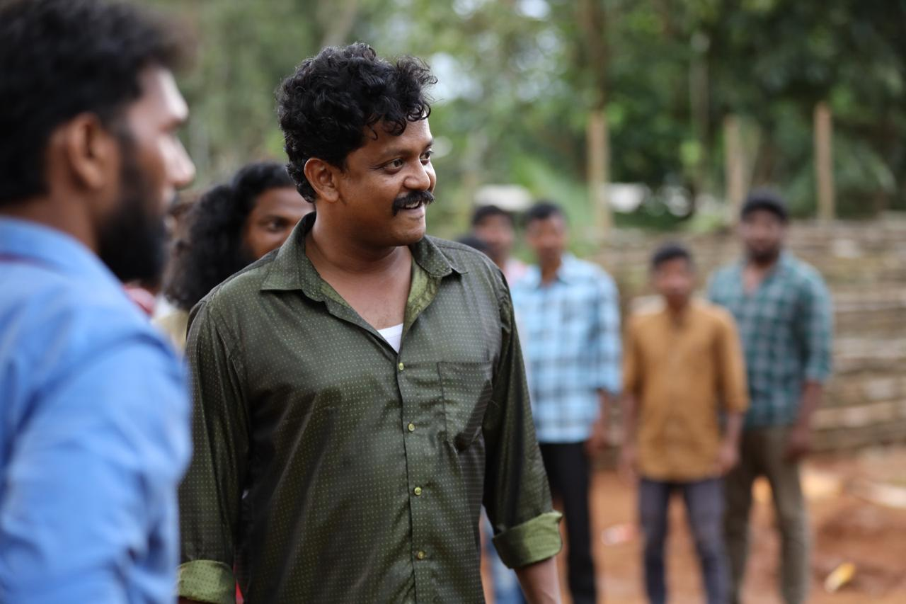 Ravindra Vijay makes his Telugu debut in Uma Maheshwara Ugra Roopasya